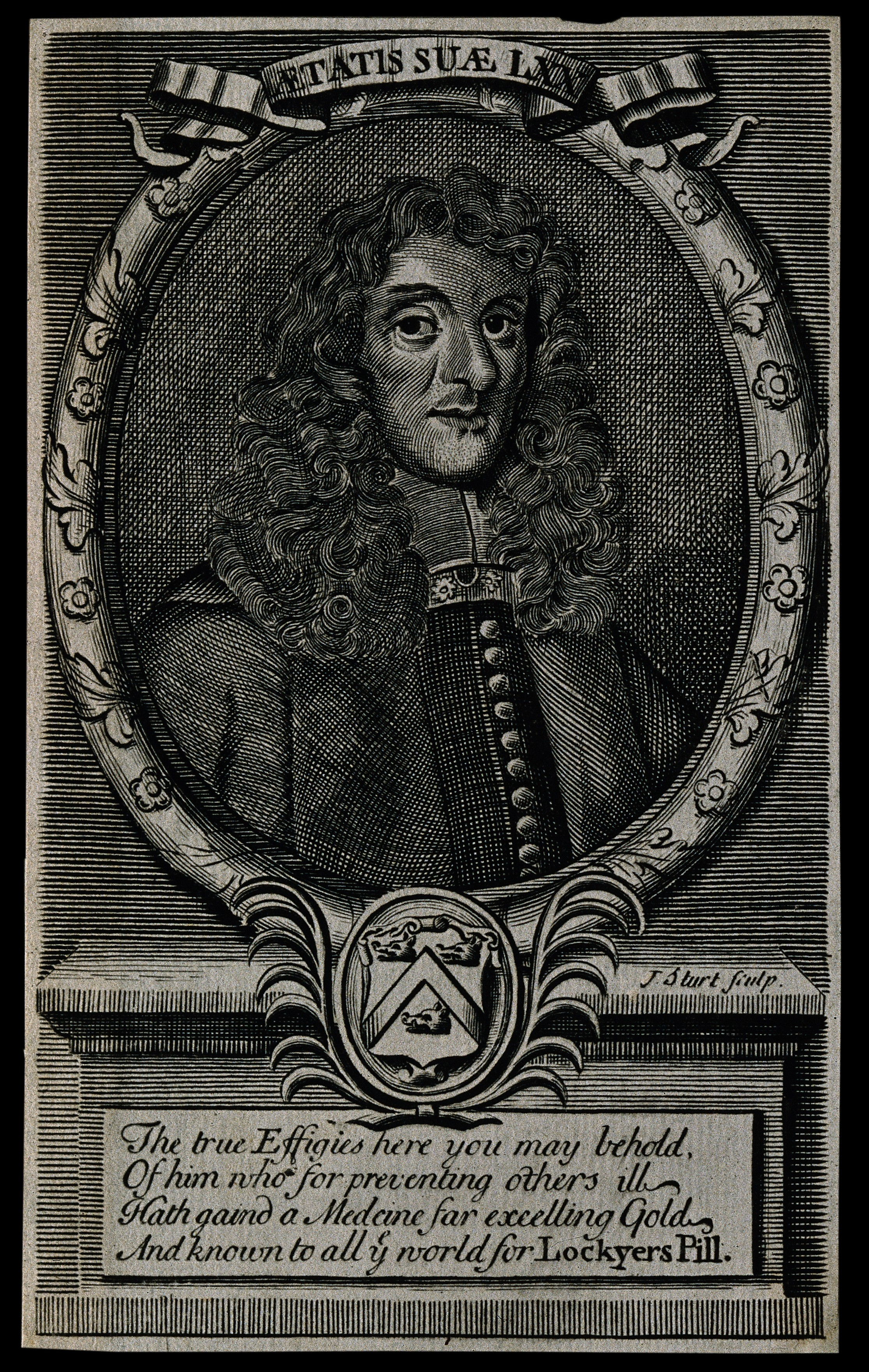 Lionel Lockyer. Line engraving by J. Sturt. Iconographic Collections Keywords: Lionel Lockyer